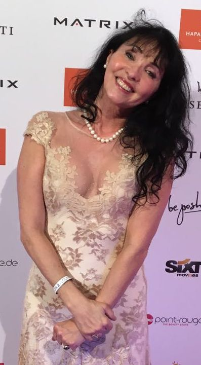 Portrait of Monique Werner at the Movie Meets Media Event 2016